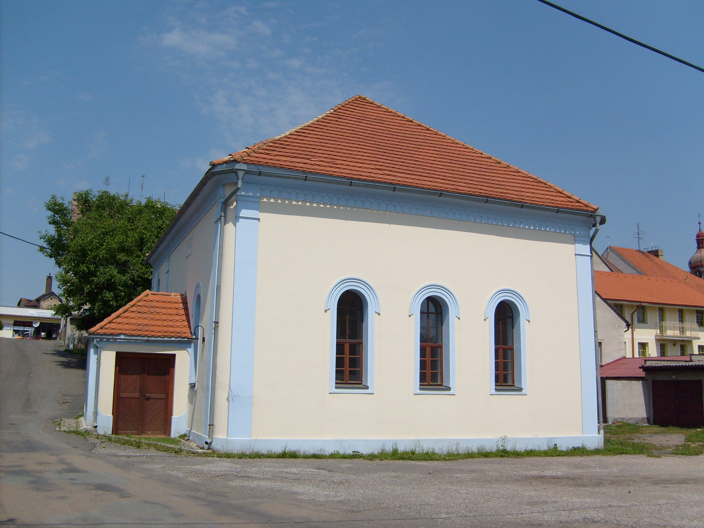 Synagogue in Radnice, Pilsen region, Czech republic